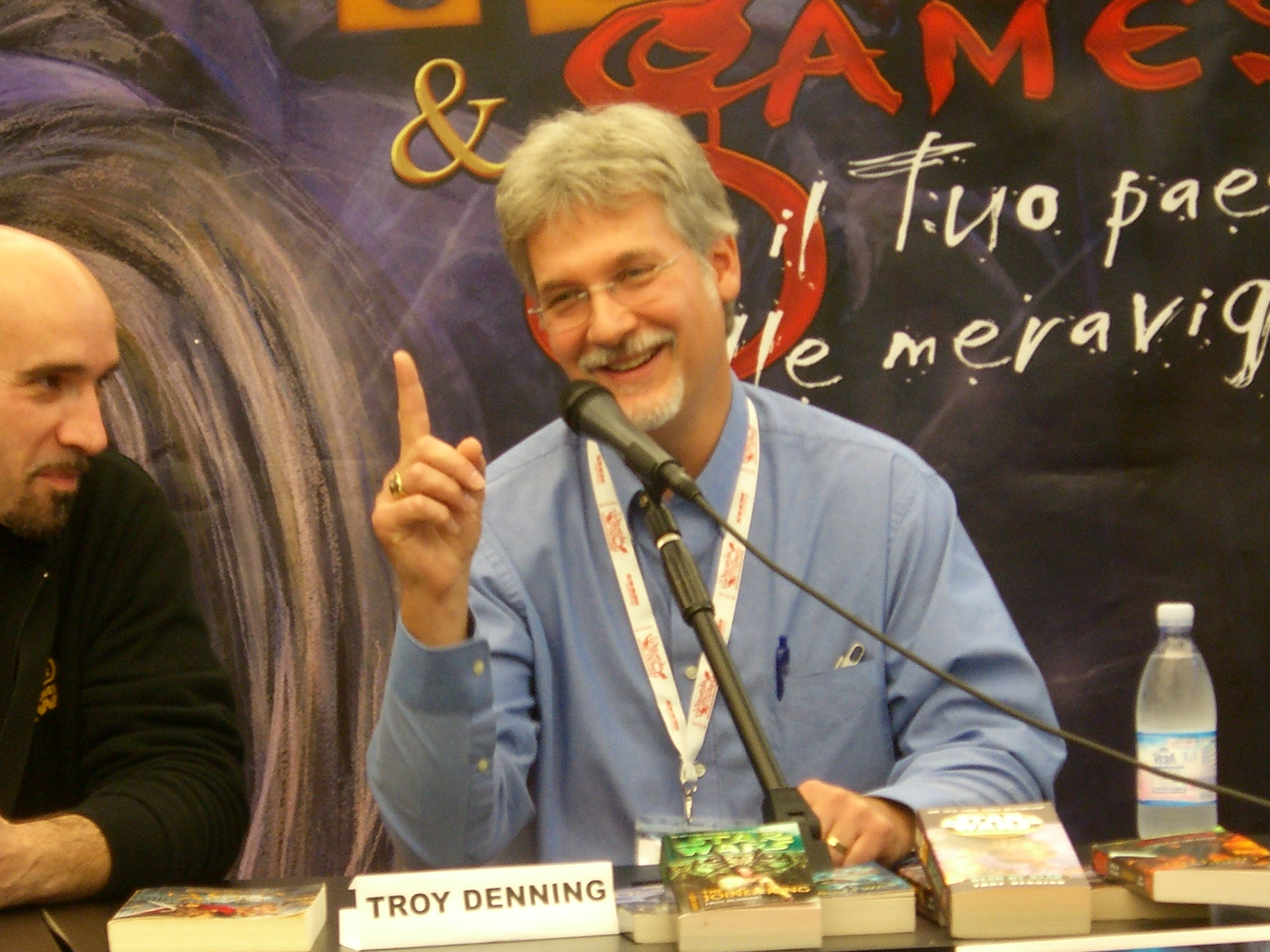 Troy Denning, at Lucca Games 2007, the foremost Italian Games and Fantasy Show.